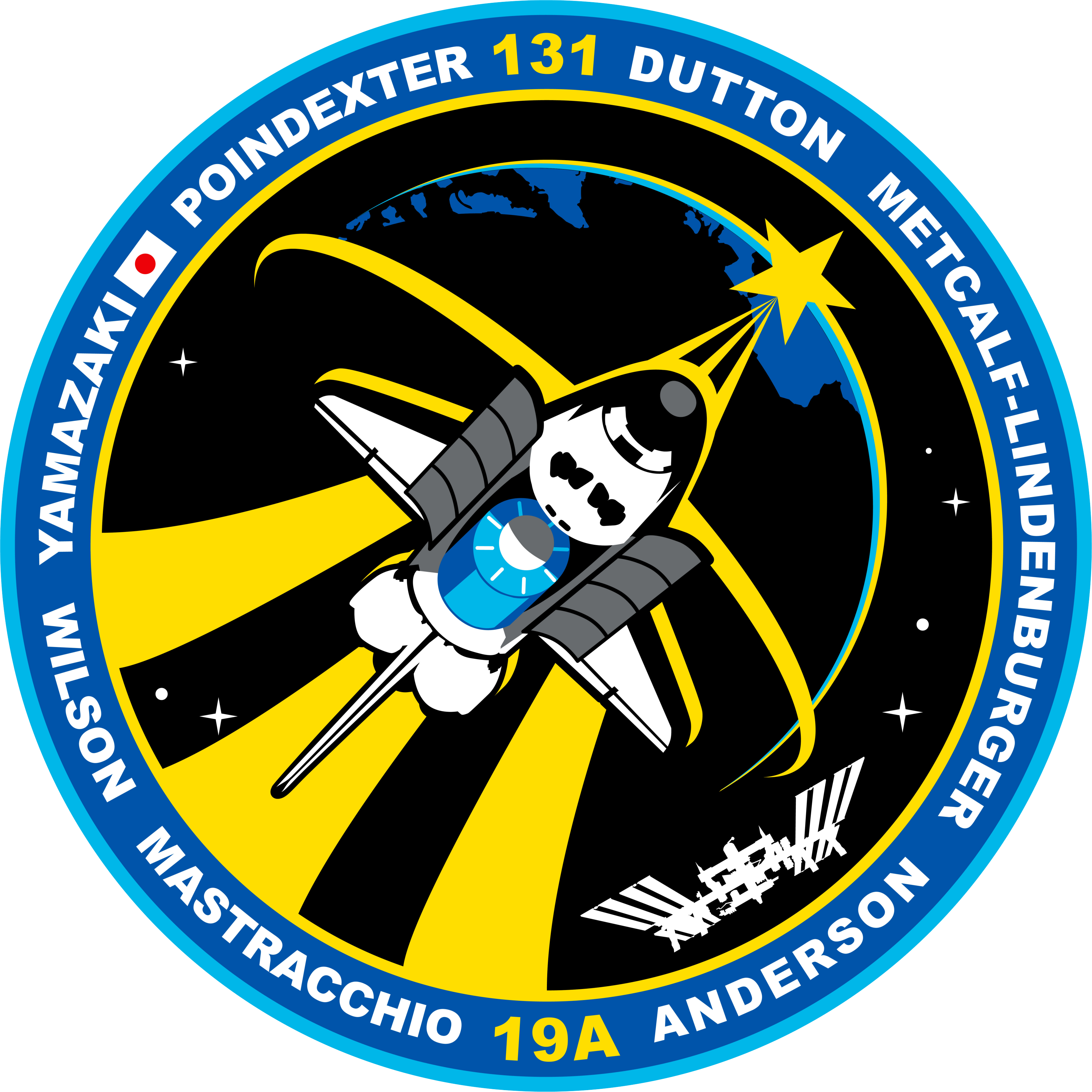 The STS-131/19A crew patch highlights the Space Shuttle in the Rendezvous Pitch Maneuver (RPM). This maneuver is heavily photographed by the International Space Station (ISS) astronauts, and the photos are analyzed back on earth to clear the Space Shuttle's thermal protection system for re-entry. The RPM illustrates the teamwork and safety process behind each Space Shuttle launch. In the Space Shuttle's cargo bay is the Multi-Purpose Logistics Module (MPLM), Leonardo, which is carrying several science racks, the last of the four crew quarters, and supplies for the ISS. Out of view and directly behind the MPLM, is the Ammonia Tank Assembly (ATA) that will be used to replace the current ATA. This will take place during three Extra Vehicular Activities (EVAs). The 51.6° Space Shuttle orbit is illustrated by the three gold bars of the astronaut symbol, and its elliptical wreath contains the orbit of the ISS. The star atop the astronaut symbol is the dawning sun, which is spreading its early light across the Earth. The background star field contains seven stars, one for each crewmember; they are proud to represent the United States and Japan during this mission.